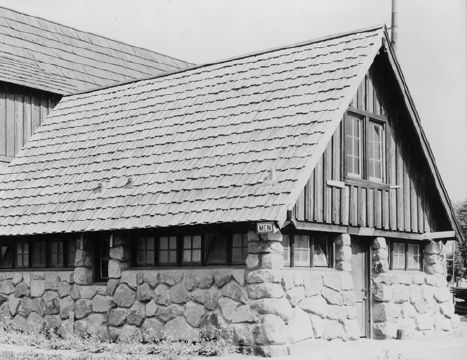 Comfort Station #4 in Crater Lake National Park, Oregon, United States; this building is listed on the US National Register of Historic Places as "Comfort Station No. 72" NRHP reference number 88002624